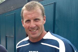 Picture of Mike Stowell.